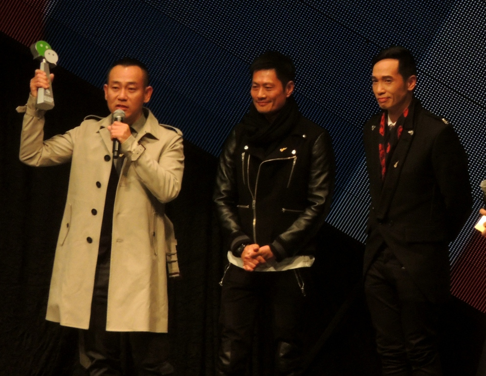 Sober Band @ Ultimate Song Chart Awards 2012